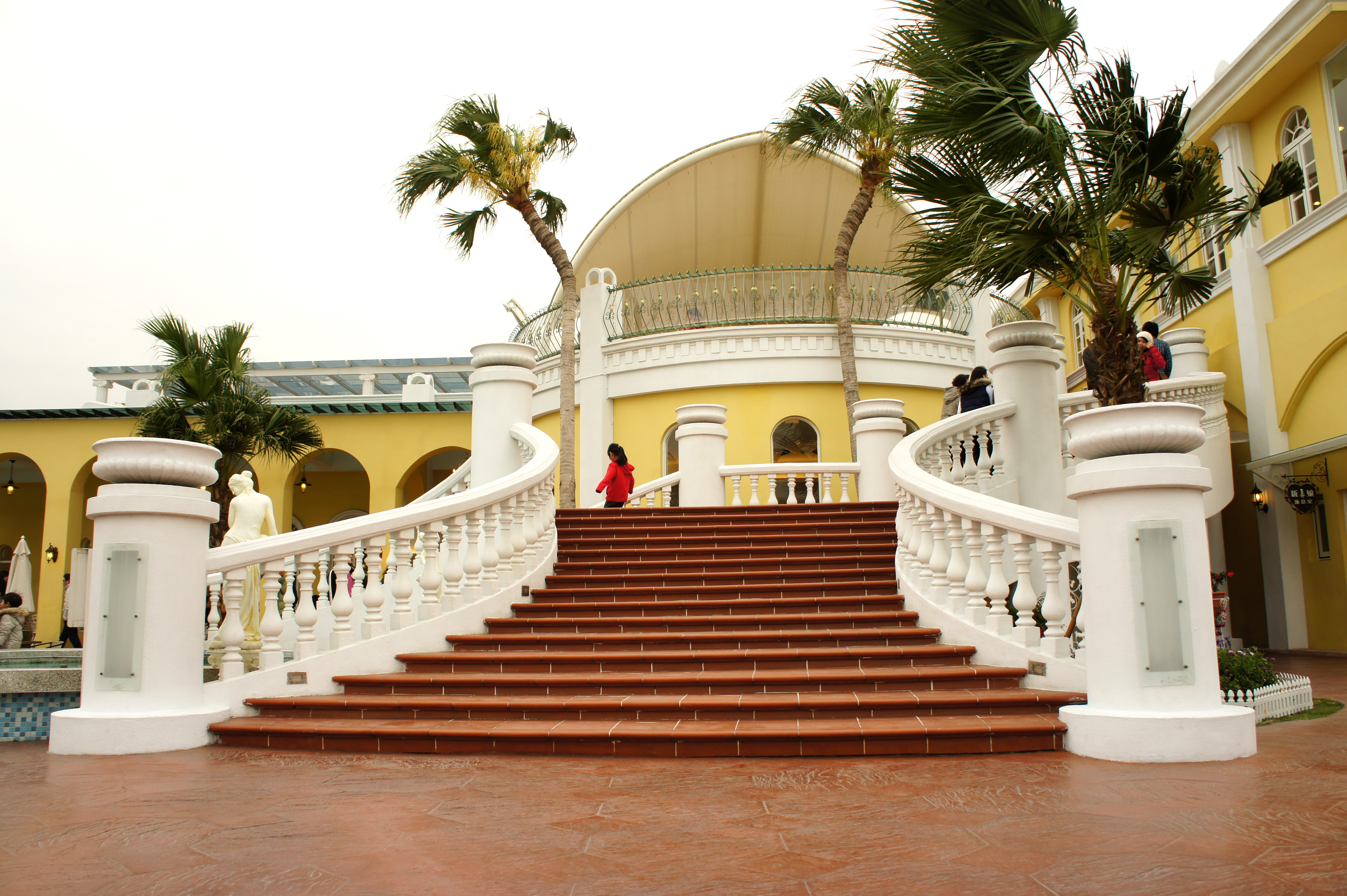 Dacun Gin Chan Coffee Bean's Roasting House, Dacun, Changhua, Taiwan.